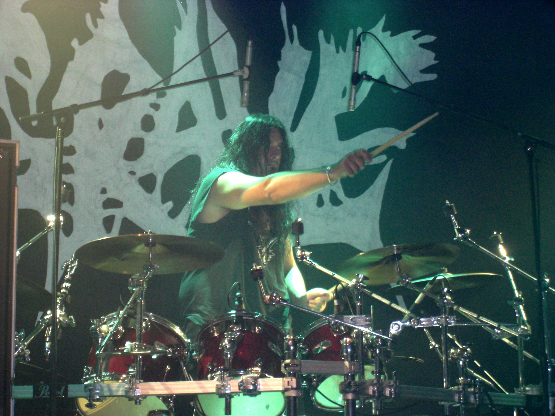 Drummer Ronnie Bergerståhl, Swedish death metal band Grave, Klubben, Stockholm 2008